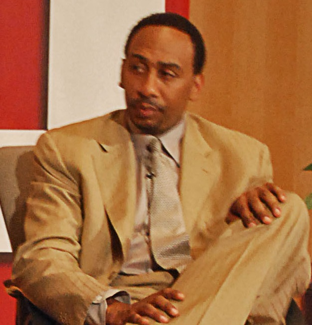 Cropped photo of Stephen A. Smith during a National Sports Journalism Center event in Sept. 2009 at IUPUI. This file has been extracted from another file: Diversity1.jpg